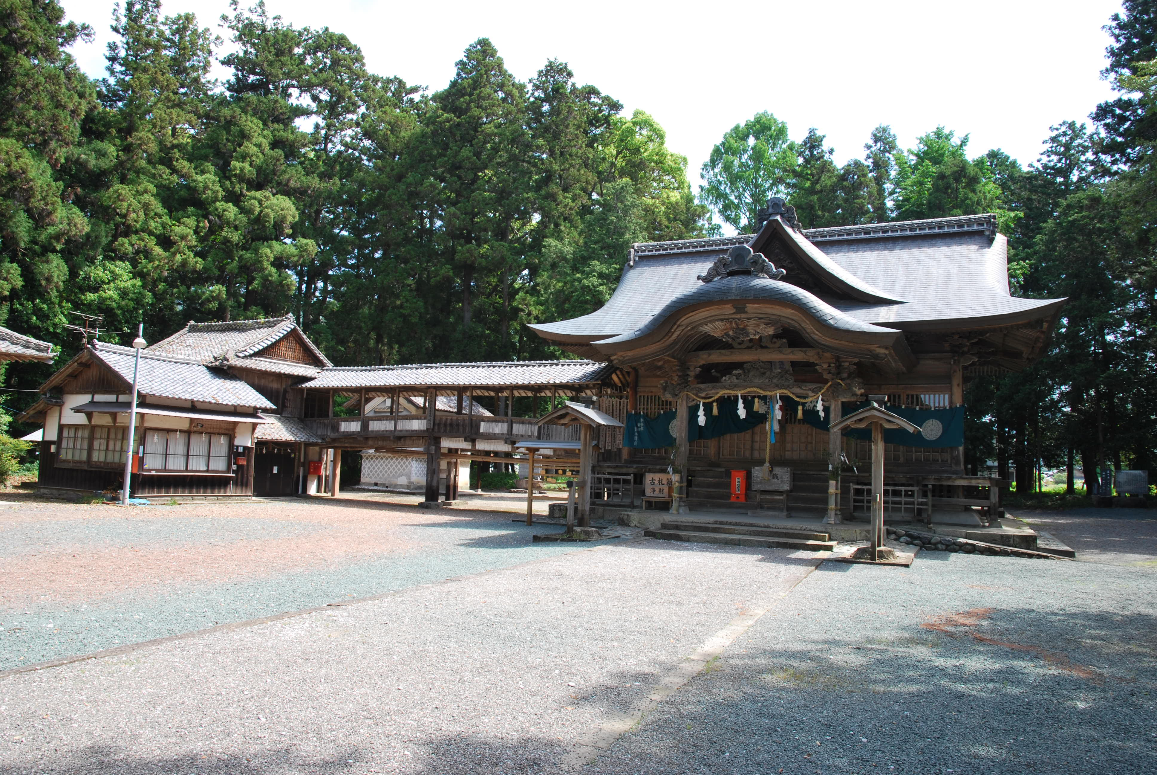 Ōkawakami Birafu Jinja shrine